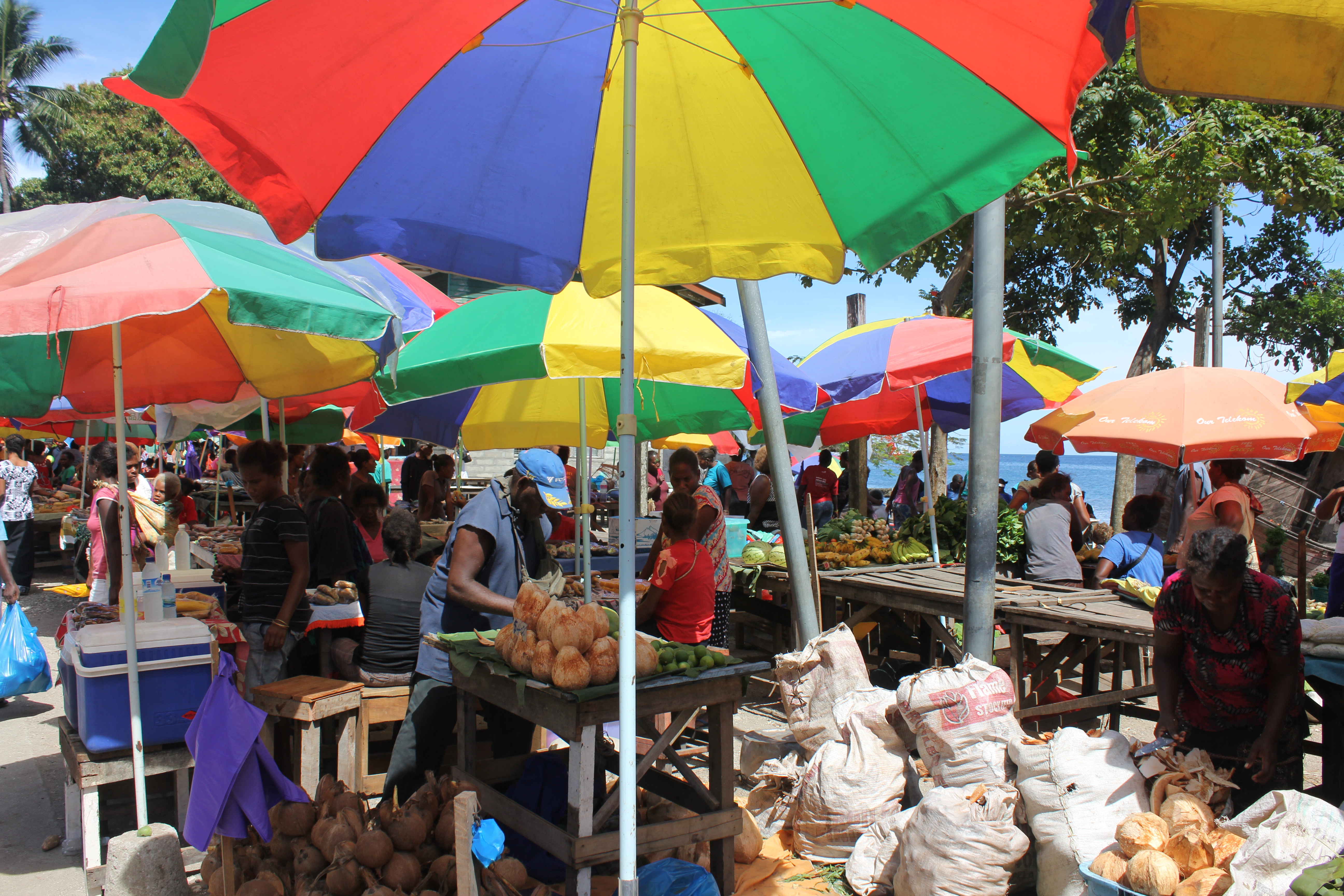 Honiara SDA Market, Solomon Islands, 2011. Photo: Yvonne Green / DFAT